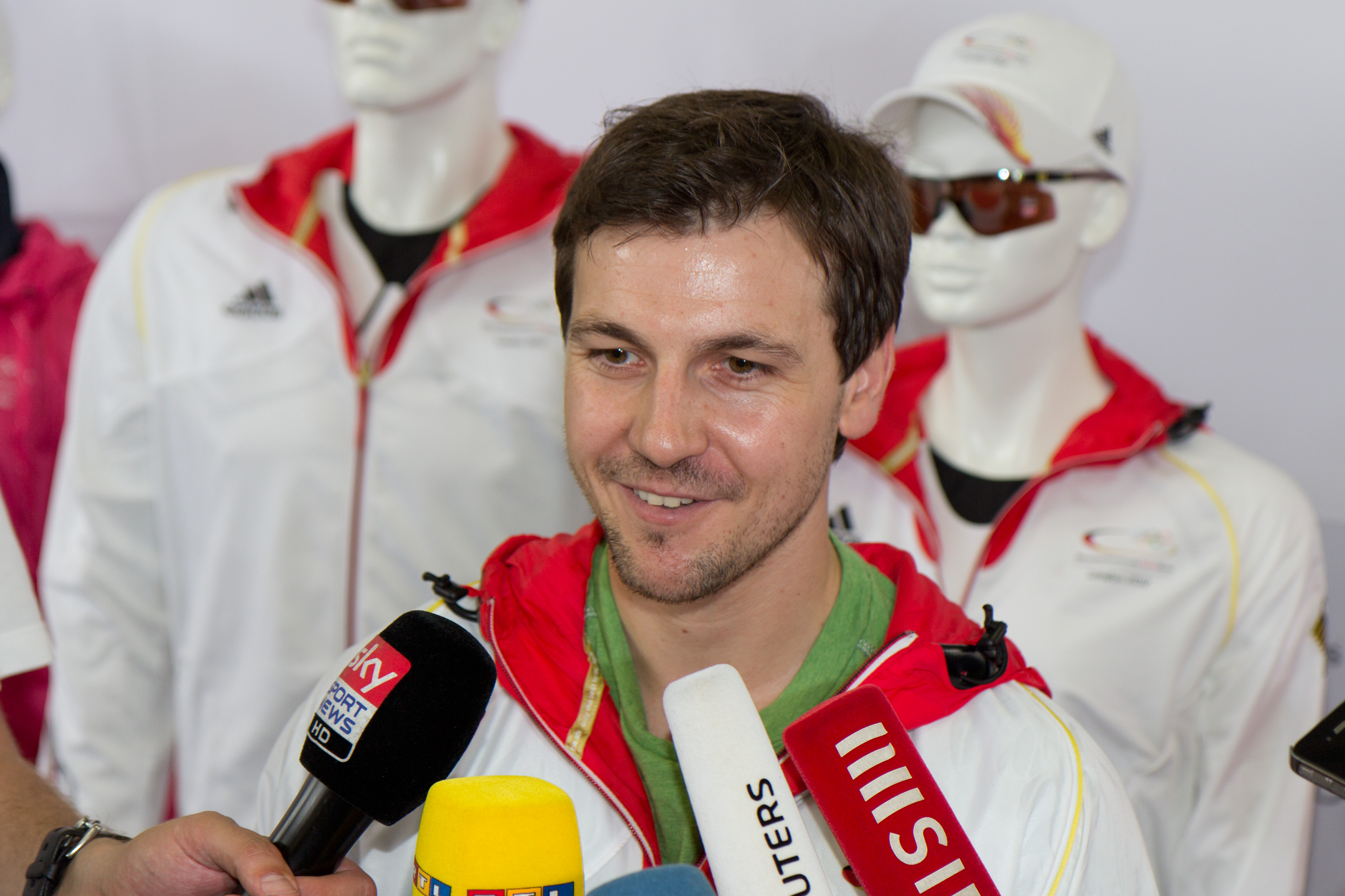 Outfitting the Olympic team of Germany 2012